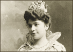 Isabelle Simi, former owner of Simi Winery